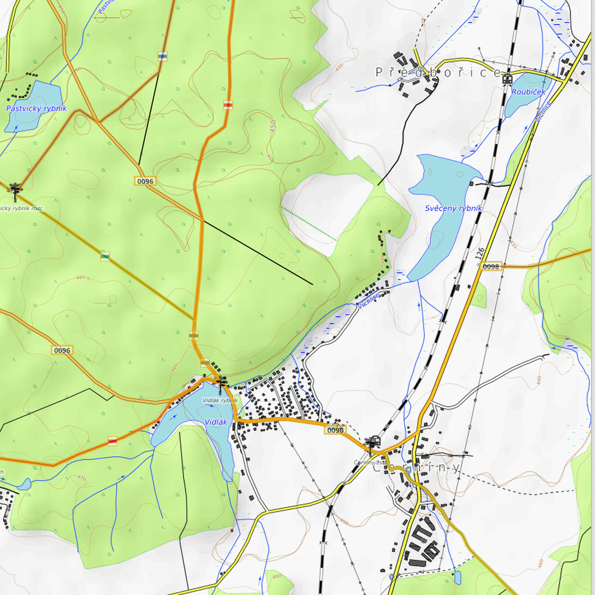 Vidlák (Černíny) 2. Schema of Surroundings. Kutná Hora District, the Czech Republic.